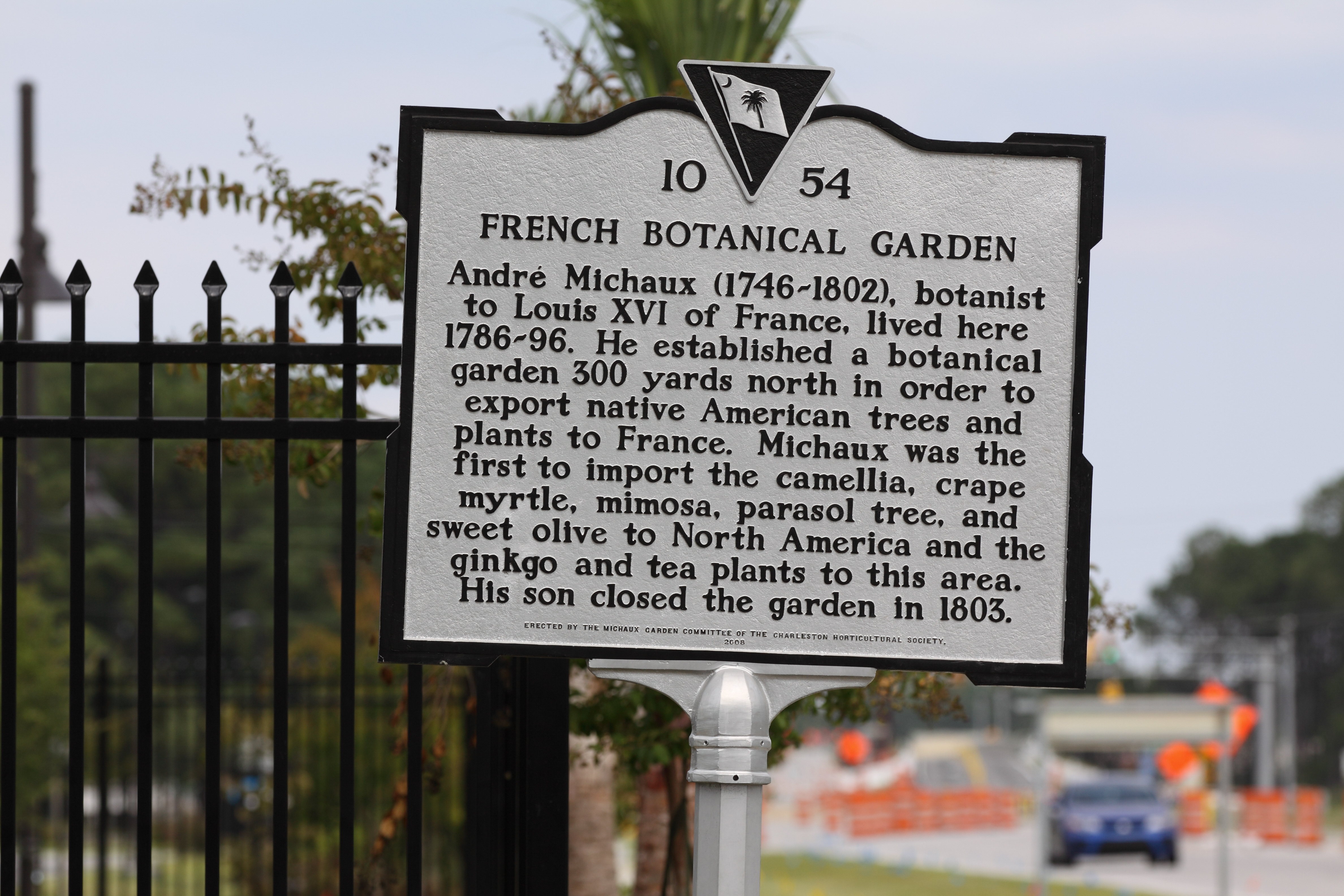 Historical marker showing location of Andre Michaux's French Botanical Garden located at Aviation Ave in the City of North Charleston, South Carolina.